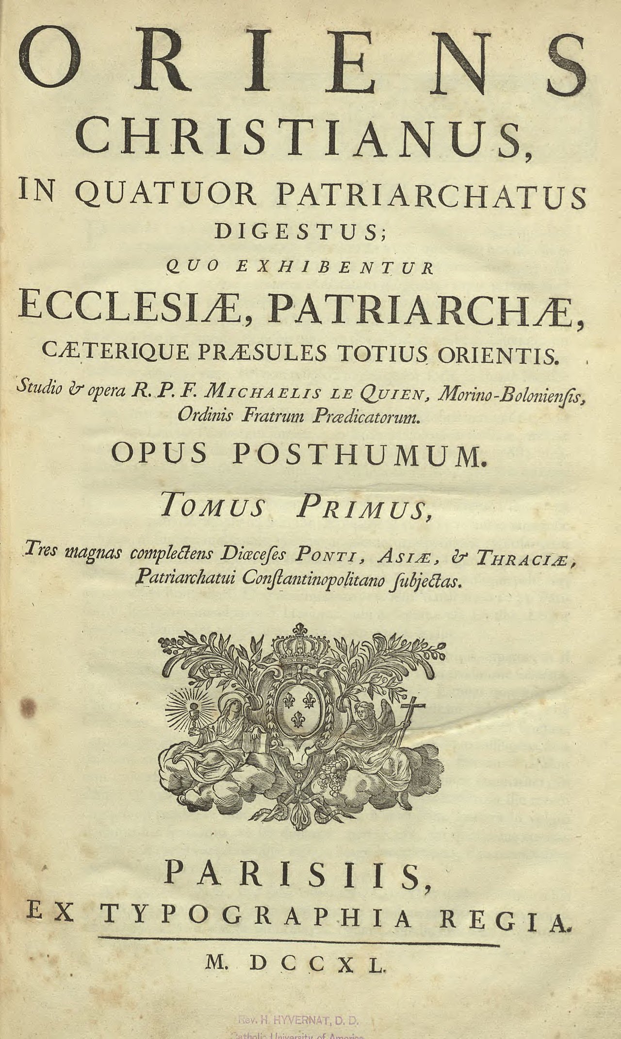 Michel le Quien: Oriens Christianus, 1st volume, Paris 1740, title page